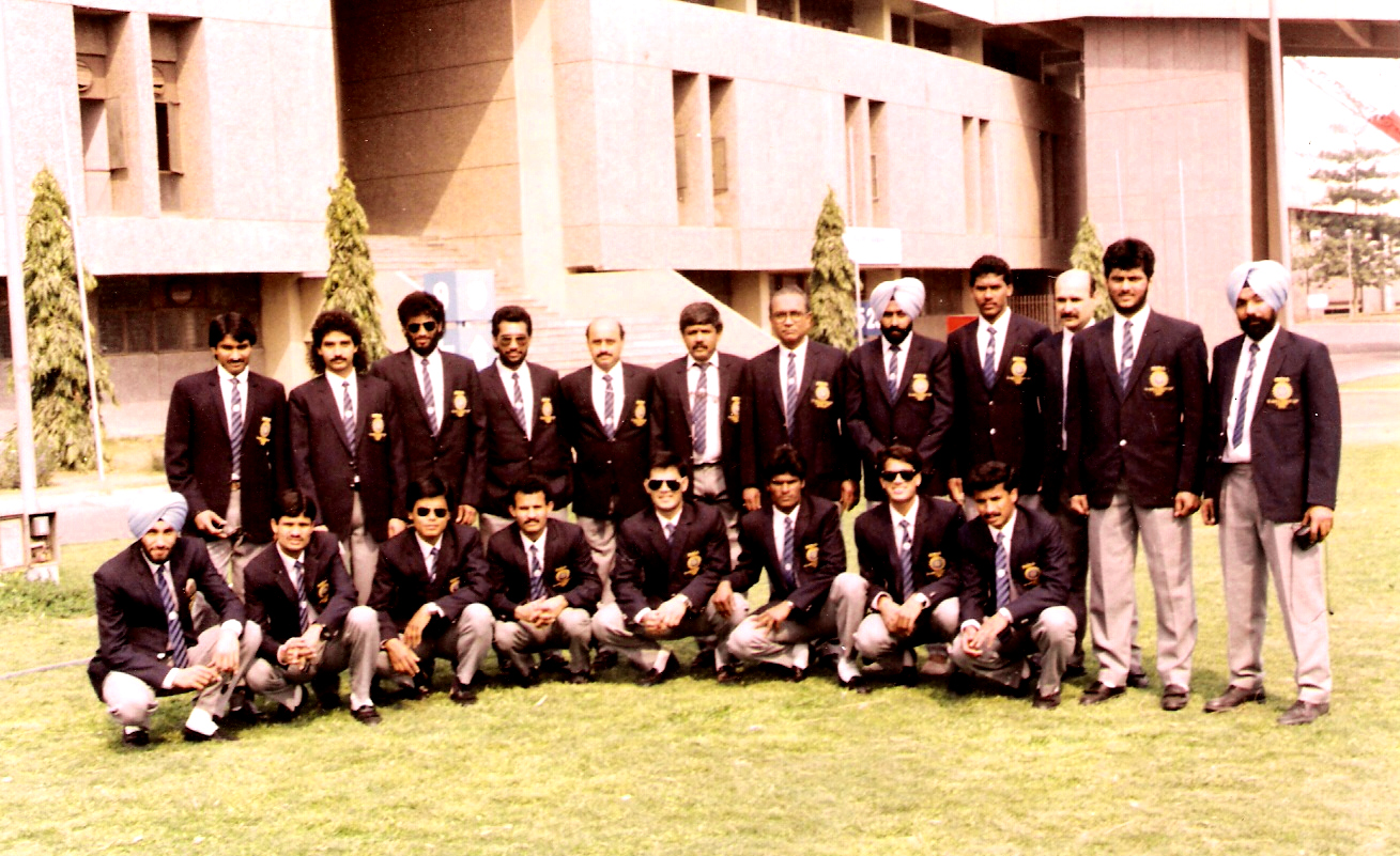 The Indian hockey team poses before the XXIV Olympic Games, Seoul